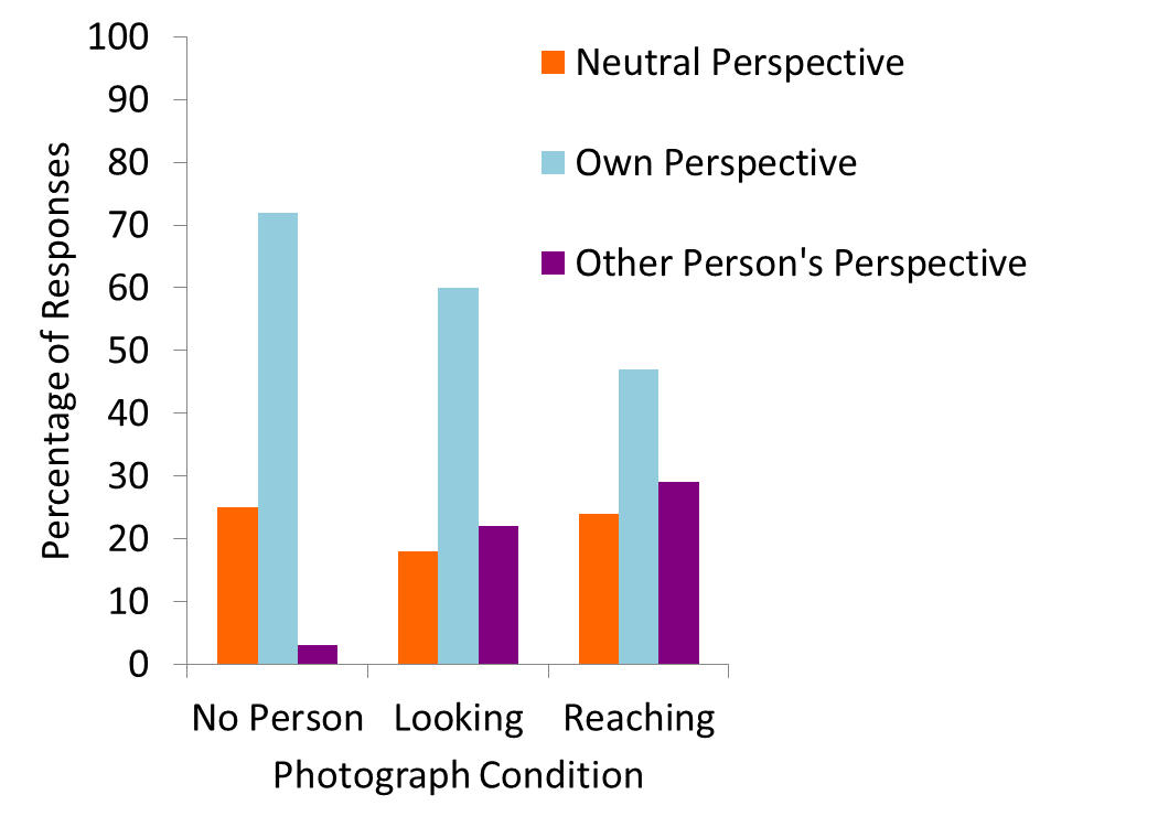 Graph depicting results from Tversky and Hard's (2009) experiment.